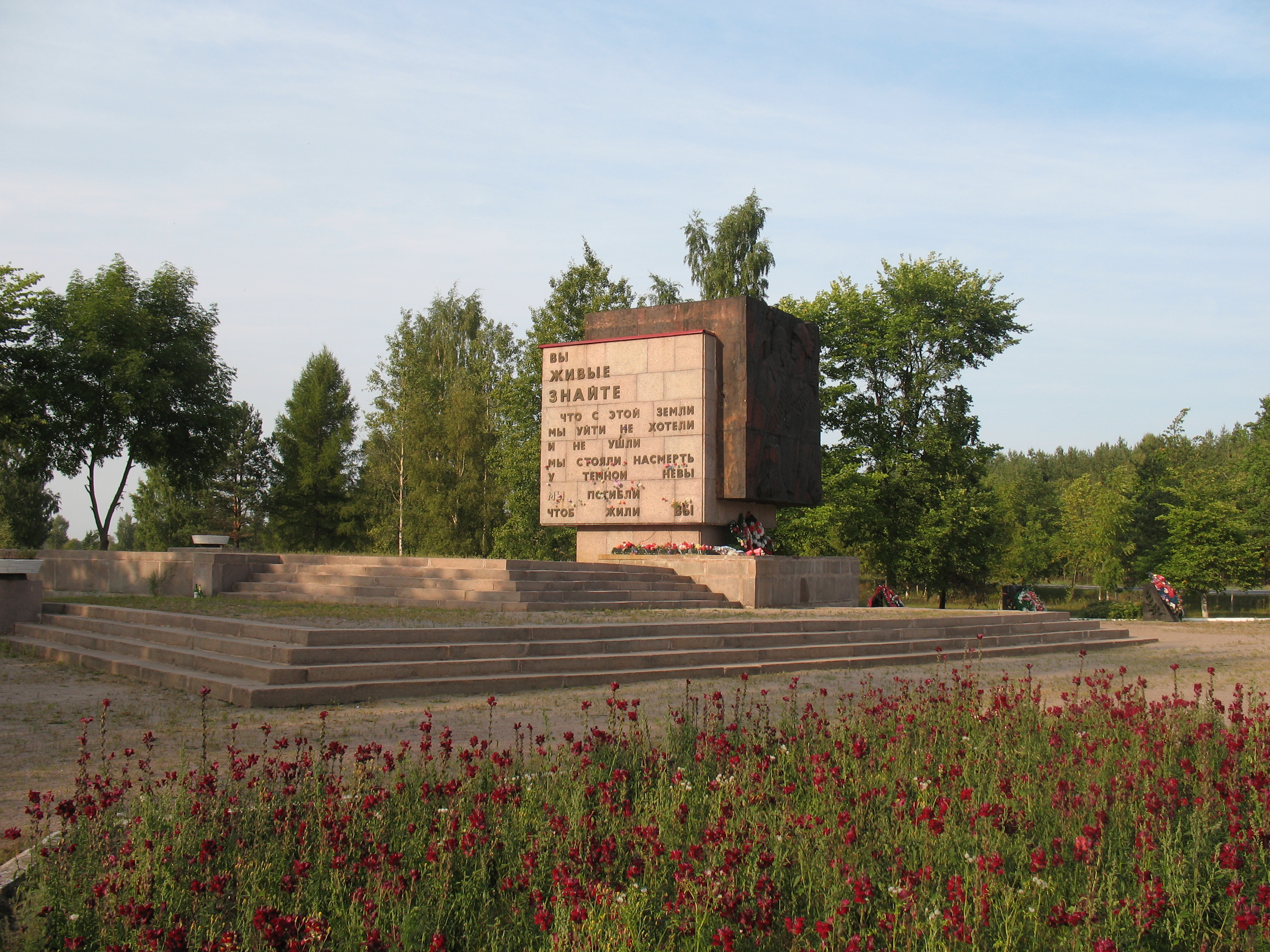 Nevsky Pyatachok Memorial. Kirovsk. Leningrad Oblast.